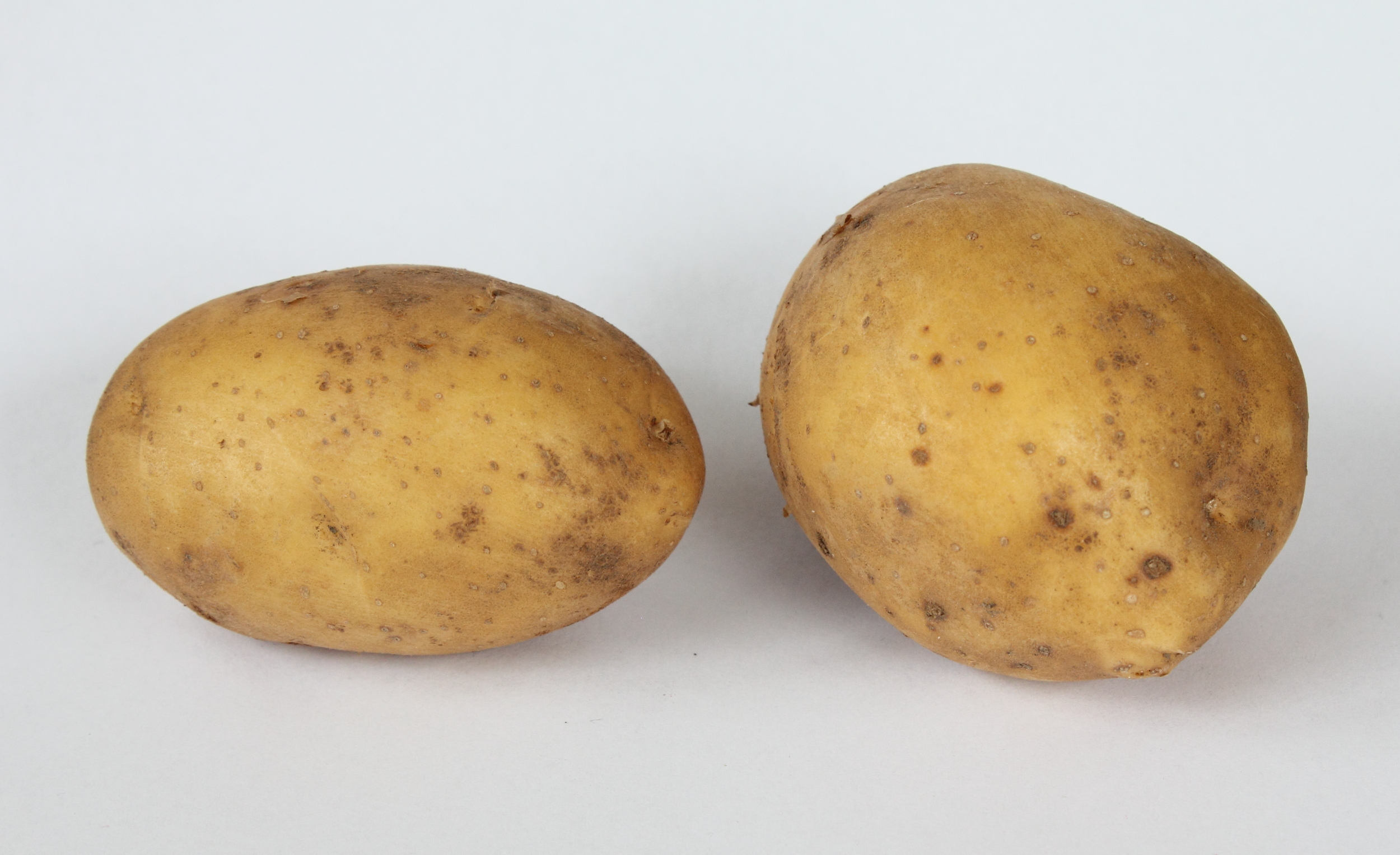 Potato variety Linda from private organic farming, 3 months after harvest. Seed potato supplied by Pötschke, Germany.